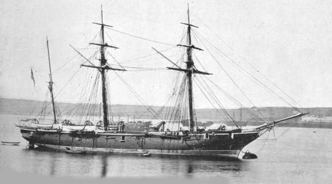 Photograph of British Rosario class sloop HMS Peterel.